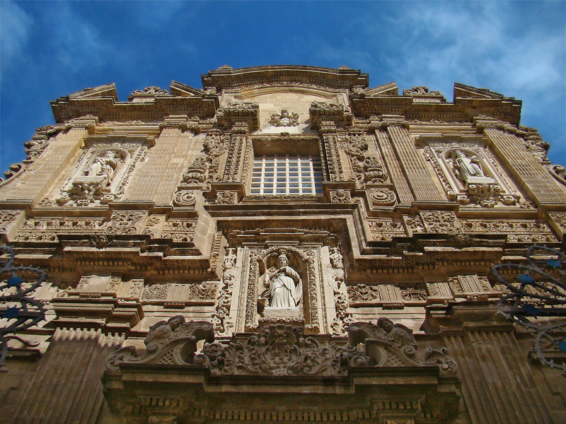 Cocathedral of Sant'Agata, Gallipoli, Apulia, Italy.